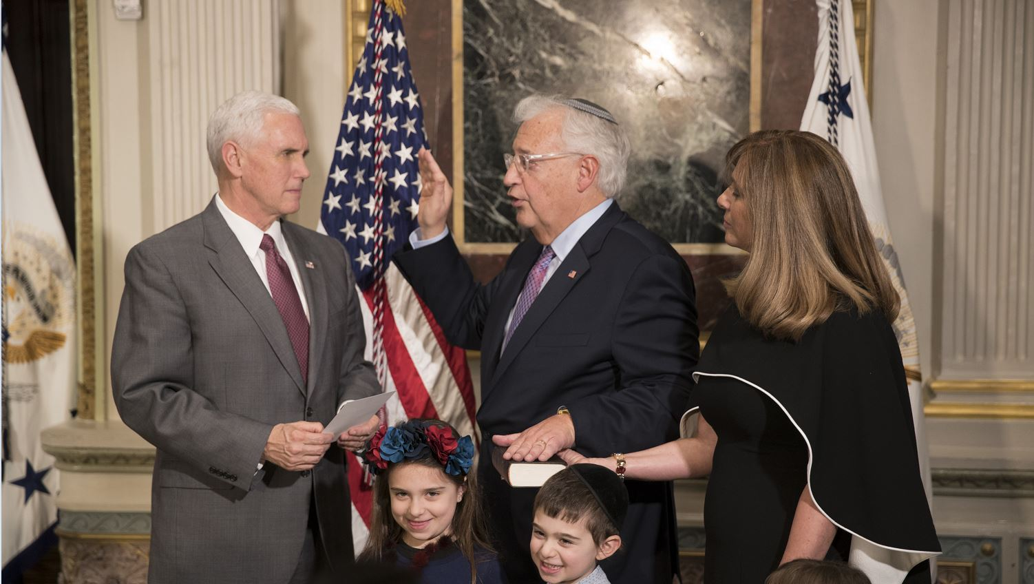 David M. Friedman is sworn in as United States Ambassador to Israel by Vice President Mike Pence in the Indian Treaty Room.